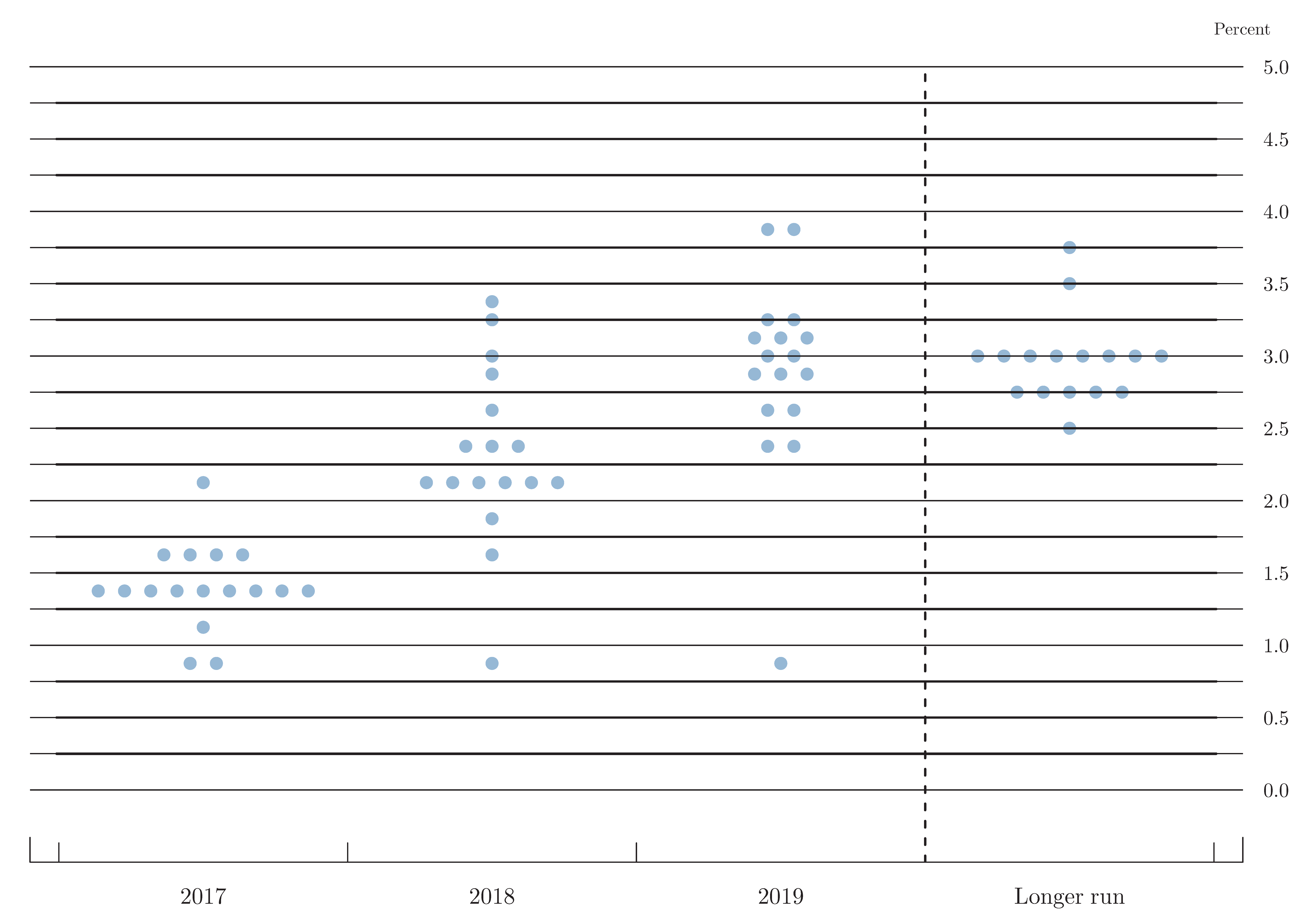 Federal Open Market Committee participants’ assessments of appropriate monetary policy: Midpoint of target range or target level for the federal funds rate, March 15, 2017.